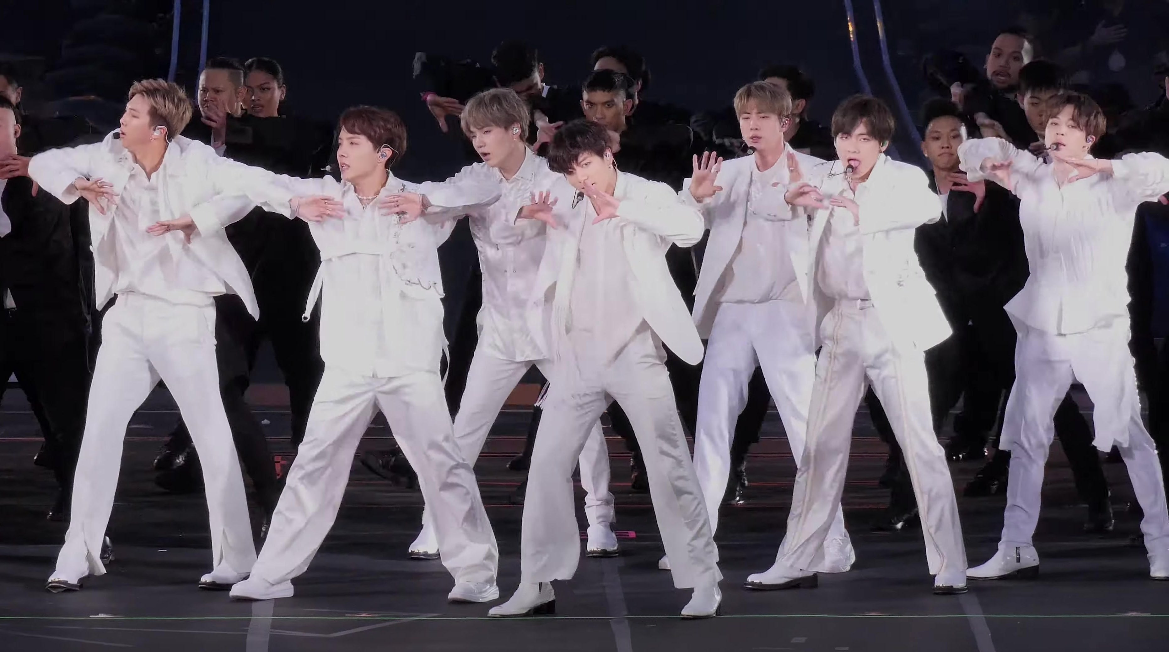 BTS performing "Not Today" during Speak Yourself tour at MetLife Stadium, 18 May 2019